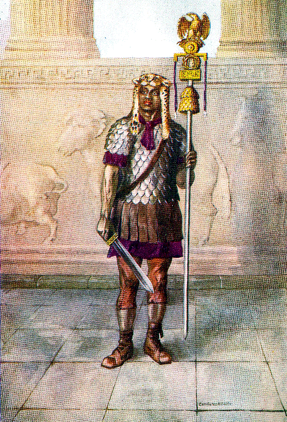 This book tells the story of Rome from the perspective of a traveler and explains many of the customs and mores of Rome as well as providing an abbreviated history. Much of the history is told by discussing important landmarks and sights. It is a social history and a geographical handbook more than a conventional history.